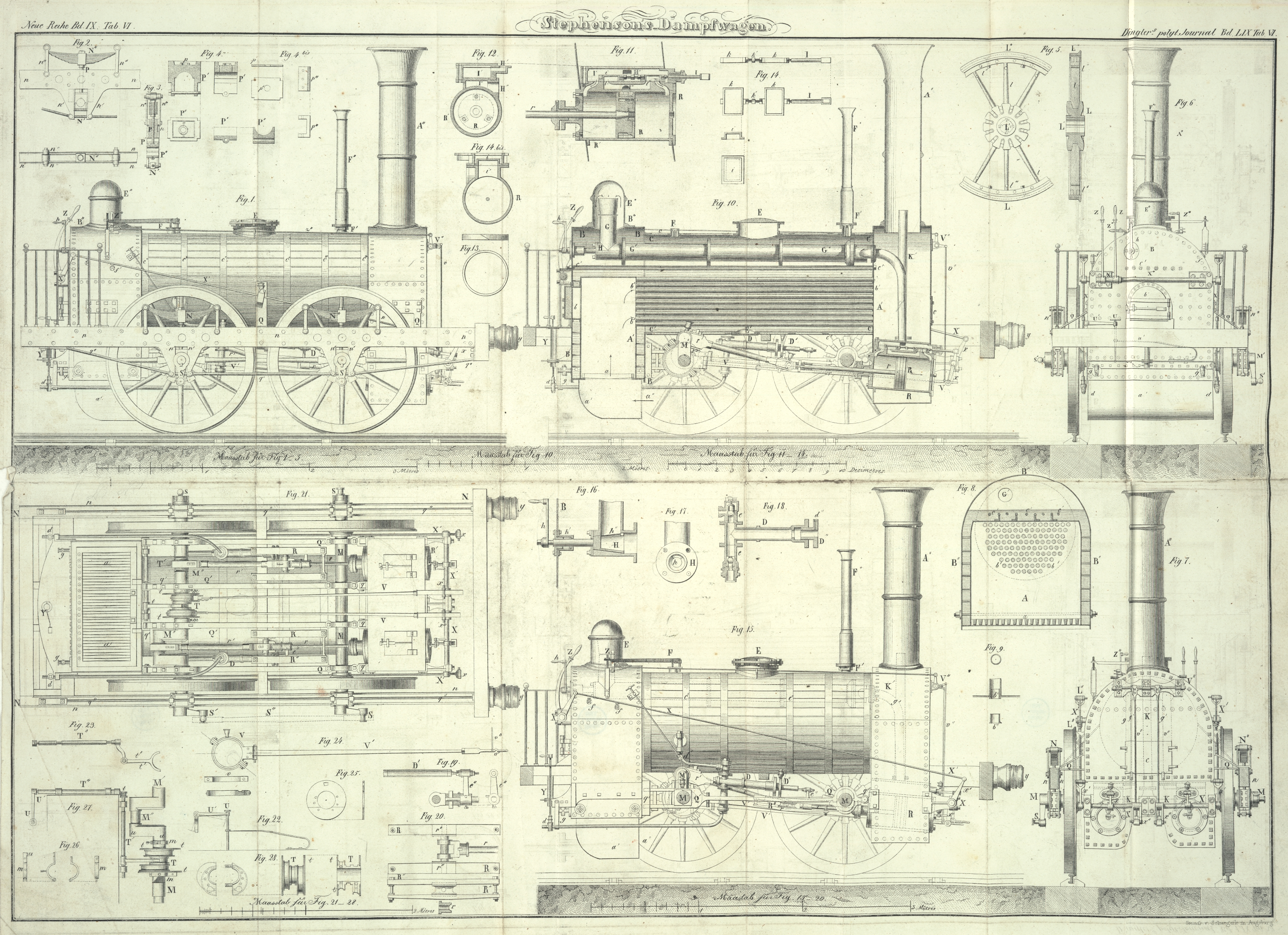 Steam locomotive by George Stephenson